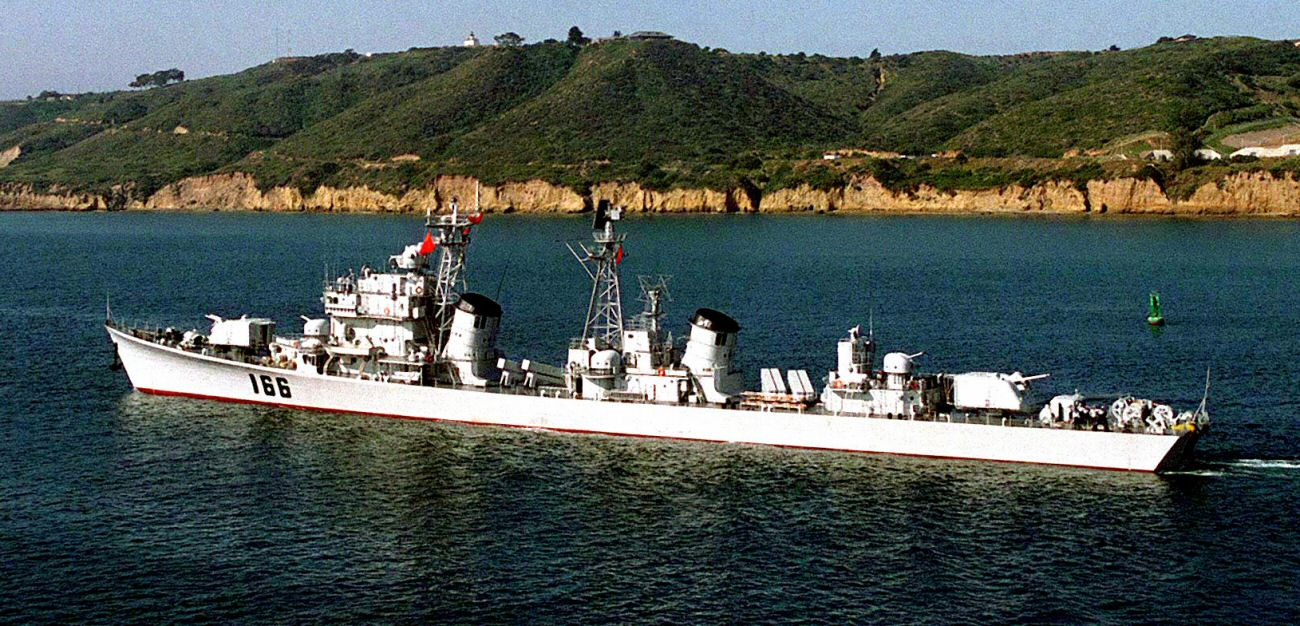 The Chinese Luda III Class Destroyer, ZHUHAI (DDG 166) departs San Diego, California, after completing a five day port visit. This marks the first time Chinese warships have crossed the Pacific and visited the Continental United States. Location: NAVAL AIR STATION, NORTH ISLAND, CALIFORNIA (CA) UNITED STATES OF AMERICA (USA)